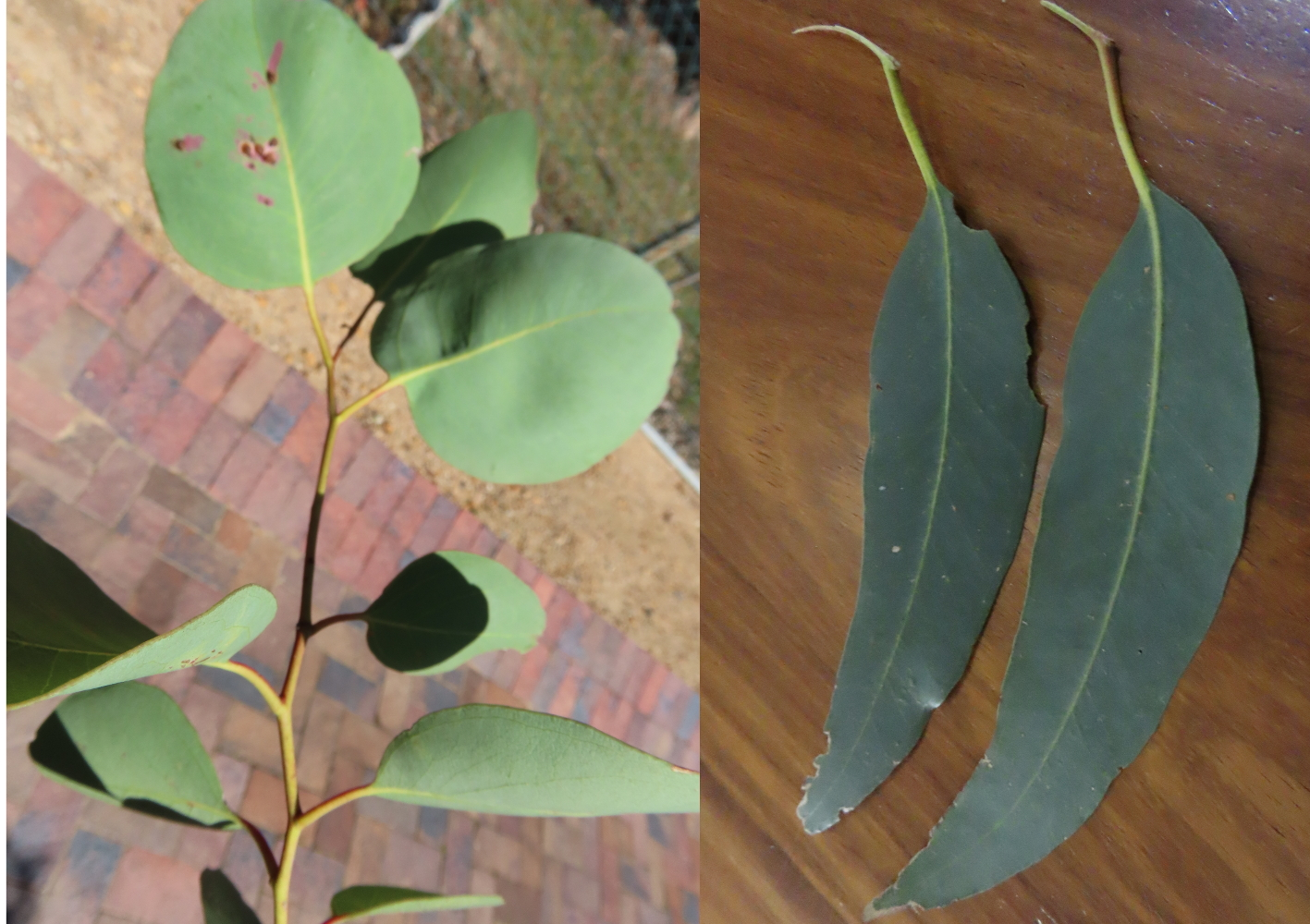 Eucalyptus camaldulensis has dorsiventral juvenile leaves but isobilateral leaves on mature trees